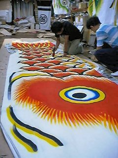 Carp streamer drawn by hand